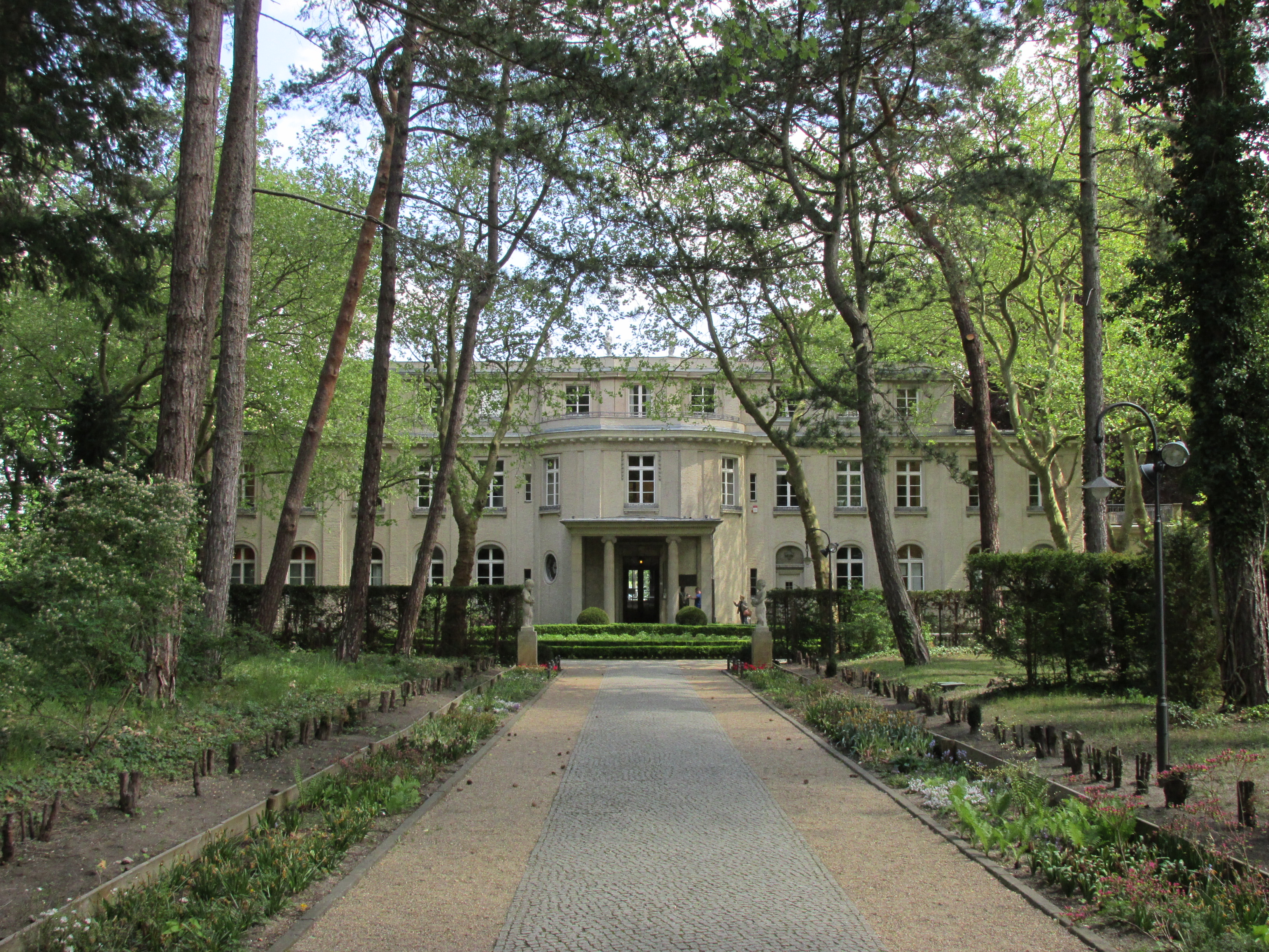 Haus der Wannseekonferenz, the house in the Heckeshorn area of Berlin-Wannsee where the Wannsee Conference was held in 1942